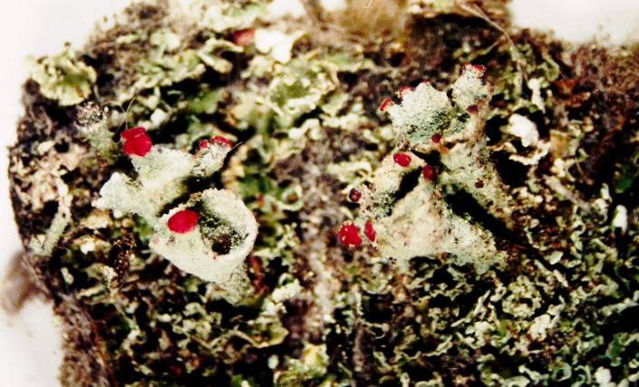 Cladonia pleurota (Flörke) Schaerer, 1850 Photograph of a herbarium specimen taken through a dissecting microscope, x6. These specimens were growing on an old piece of cotton cloth in a woodland in the vicinity of Deer Park Road S of the entrance to the Visitor Center at the Soldiers Delight Natural Environment Area, Owings Mills, Baltimore County, Maryland, USA (Lat. 39o24.439' N, Long. 76o50.085' W, Elevation 649 feet). Collected and determined by E.C. Uebel (No. U-591, 13 May 2006).